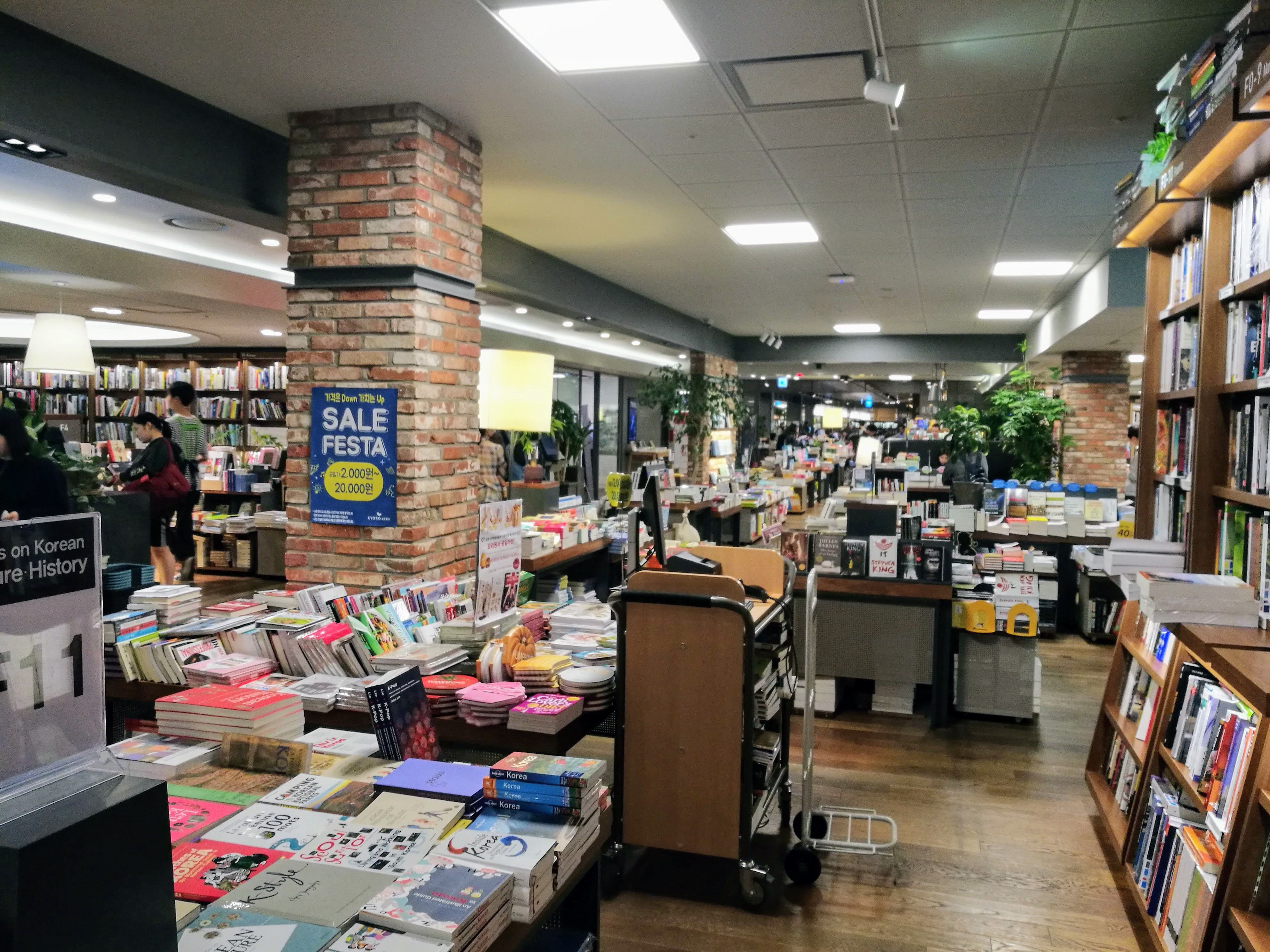 Kyobo Bookshop at Gwanghwamun square